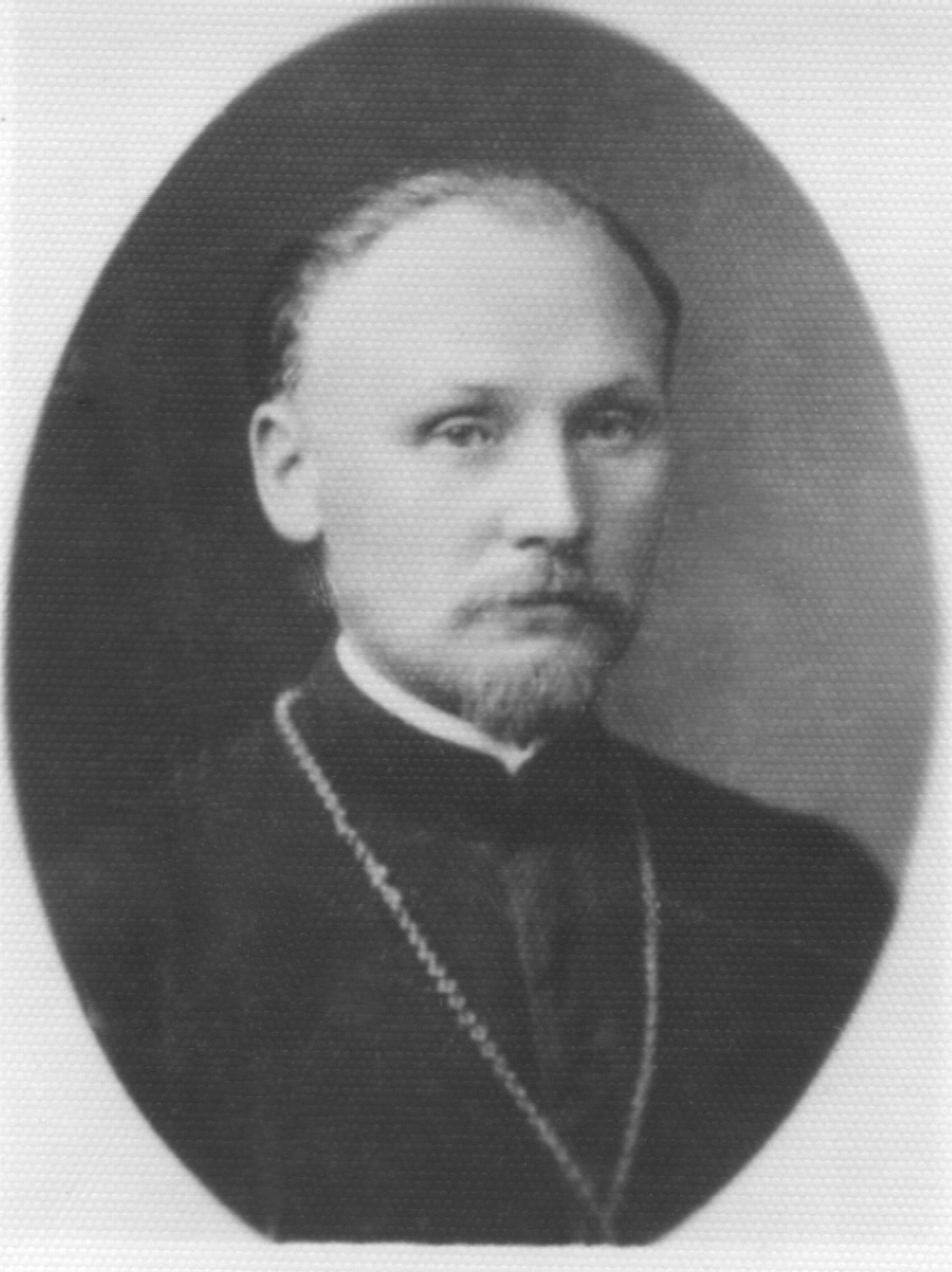 Belarusian catholic priest of the Byzantine rite and socio-cultural activist Balasłaŭ Pačopka